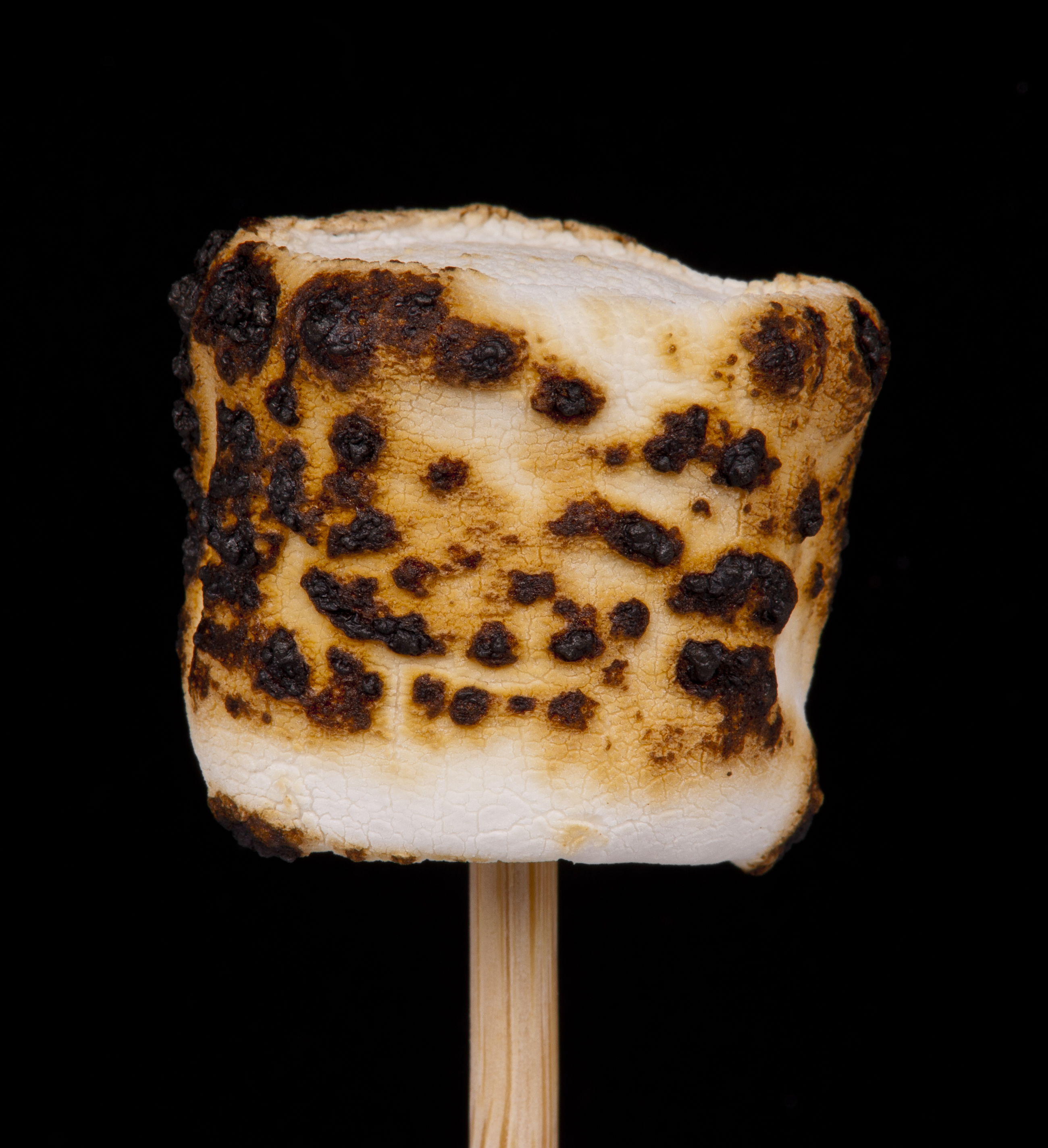 A marshmallow that has been roasted over an open flame.